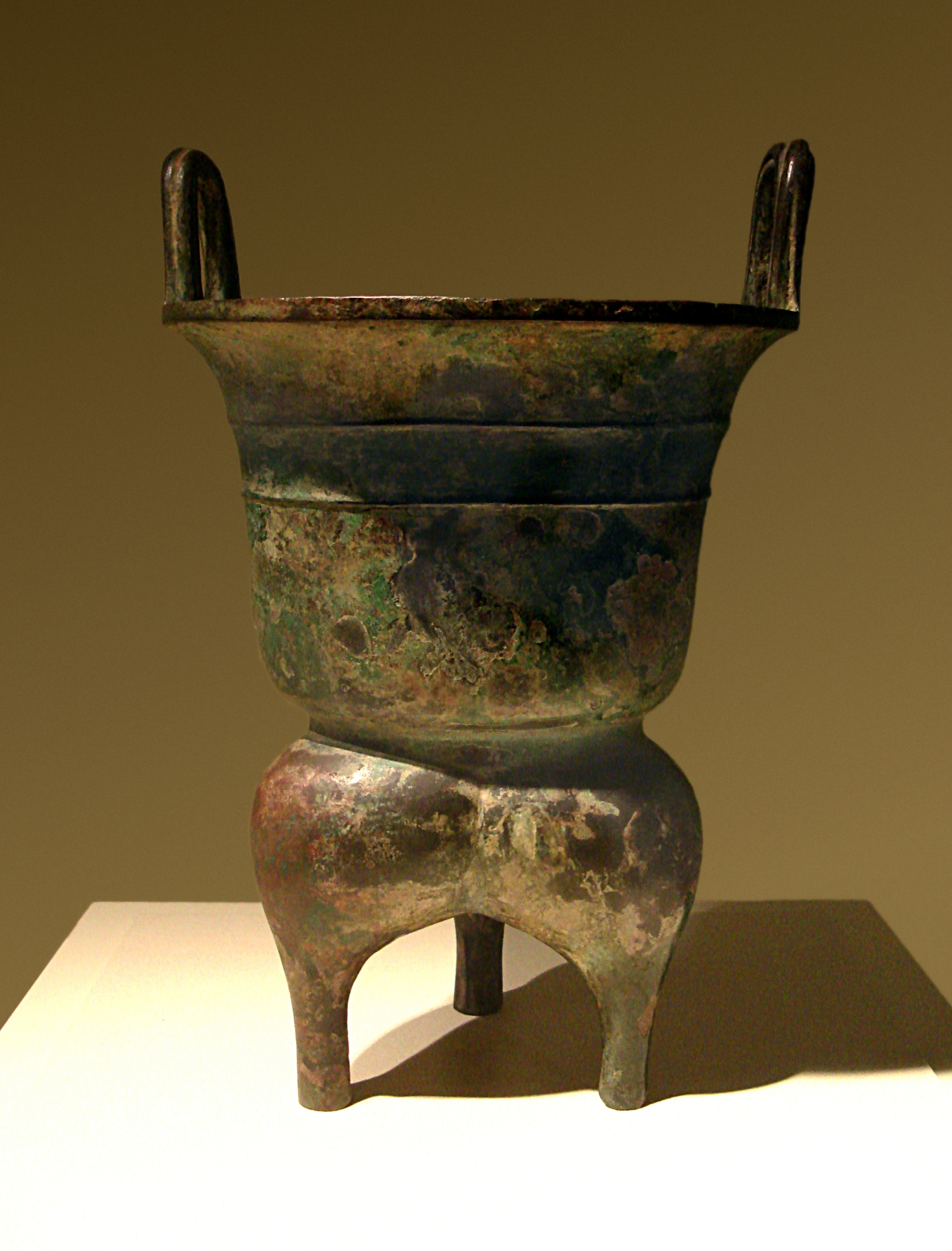 Bronze Yan (rice steamer) Zhou Dynasties (1046 - 221 B.C.) When water is boiled in the lower section of this vessel, steam rises through the centre,and cooks the rice in the compartment above. These vessels were also buried with the dead, and suggest the sacrificial significance of rice as well as its importance to the people and their culture.